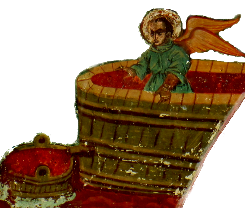 Treading the Winepress (alluding to both Isaiah 63 and Revelation 14), from a series of frescoes illustrating the Apocalypse, at Sucevița, Romania. See details in Ilie Melniciuc, "Saint John's Revelation in the Painting from Sucevița Monastery", European Journal of Science and Theology, Vol.10, Issue 1, 2014, pp. 279, 282.